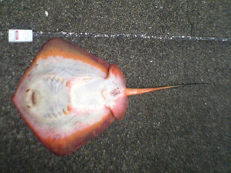 Red stingray (Dasyatis akajei)